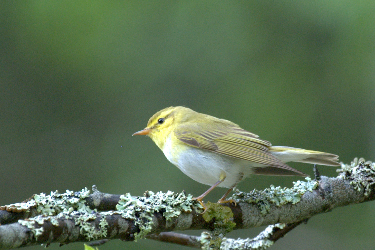 A Wood Warbler (phylloscopus sibilatrix) in Luopioinen, Finland, May 2011.